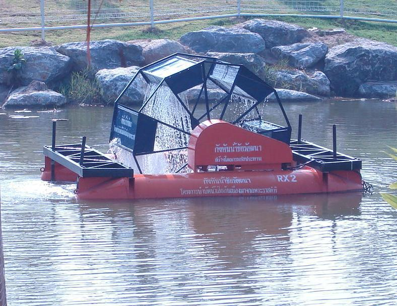 กังหันน้ำชัยพัฒนา -- in Royal Flora Expo 2006, Chiangmai, Thailand